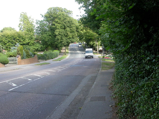 Bearwood, Magna Road Magna Road, A341 between Ensbury and Merley; at the Poole/Bournemouth boundary. "Magna" refers to the settlement of Canford Magna, which is on the way.